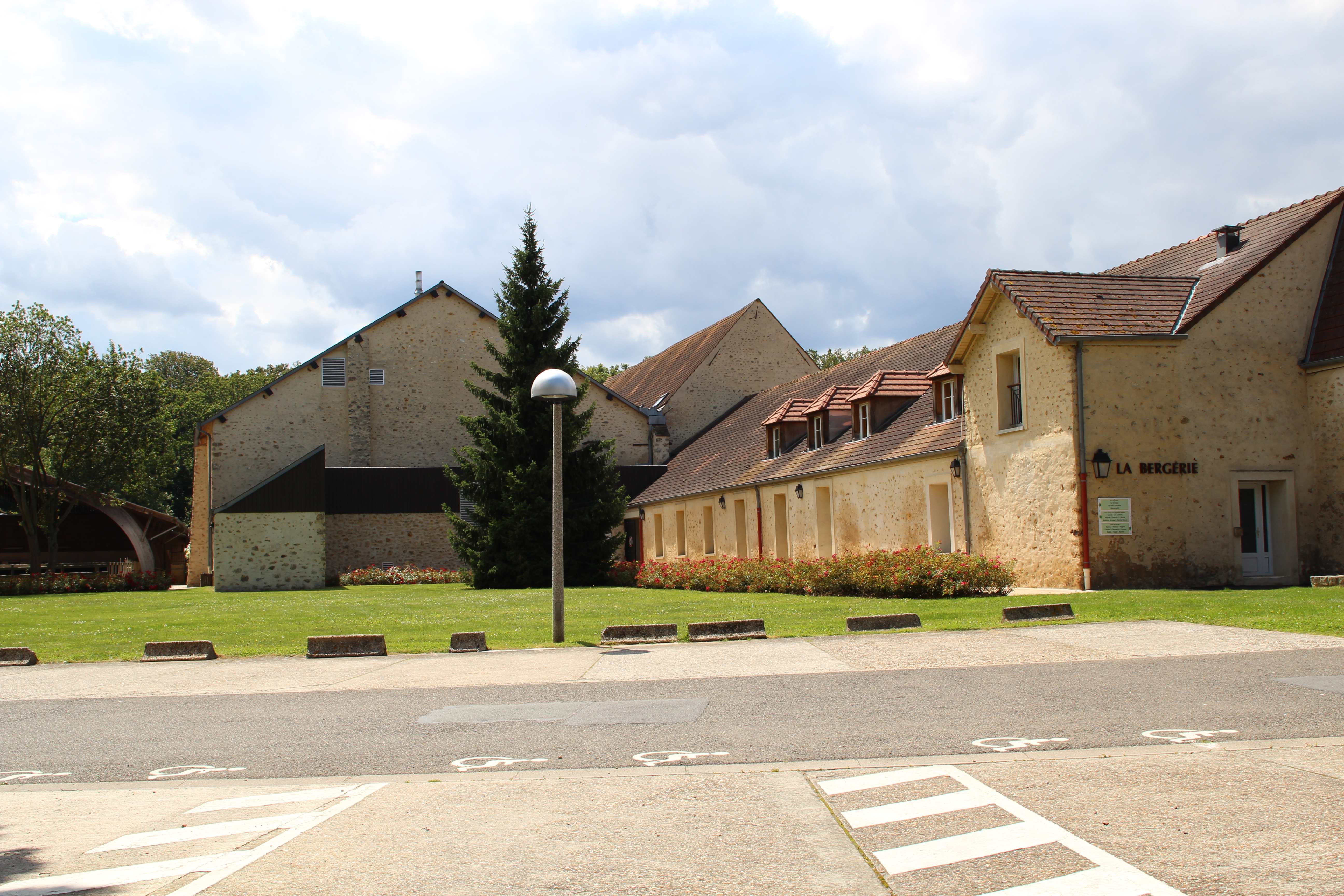 Manet farm in Montigny-le-Bretonneux, France.